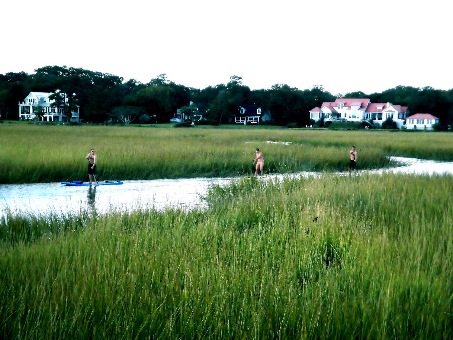 Exploring the waterway marshes. Mount Pleasant, Charleston County, South Carolina.